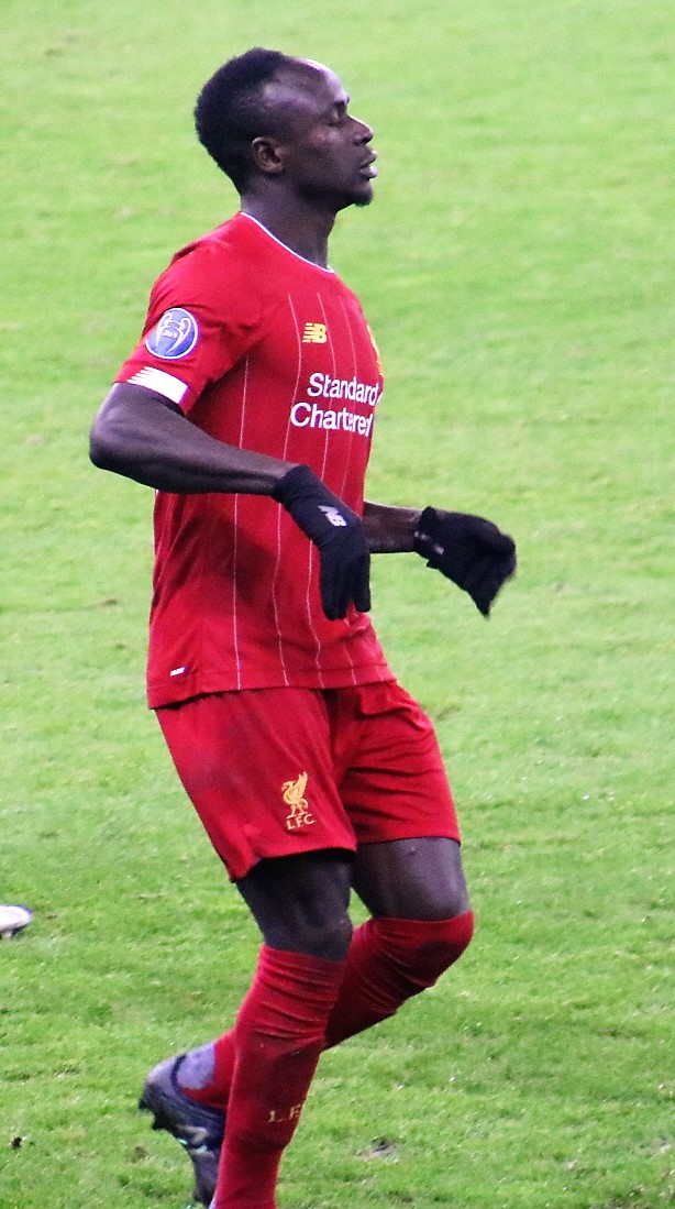 UEFA Champions League 6th round Group stage